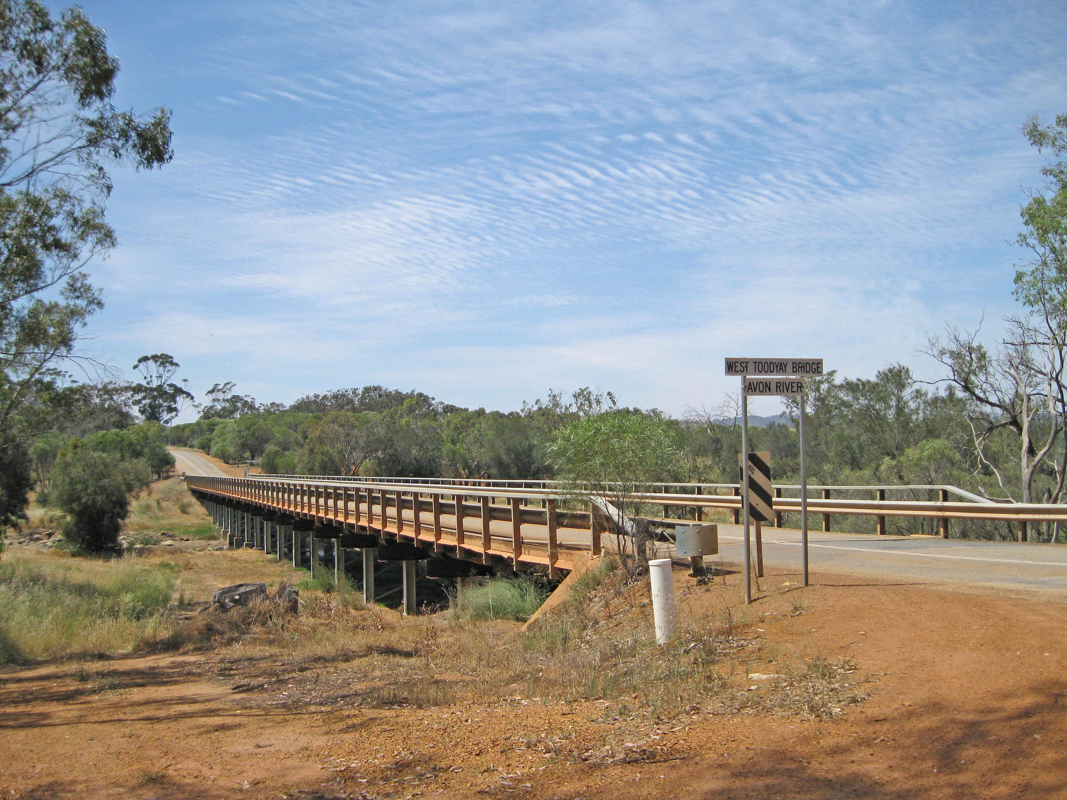 West Toodyay Bridge on Julimar Road, originally constructed in 1902 as a timber bridge, but now widened with some of the structure replaced by steel and the timber decking overlaid with concrete. West Toodyay, Western Australia 2015